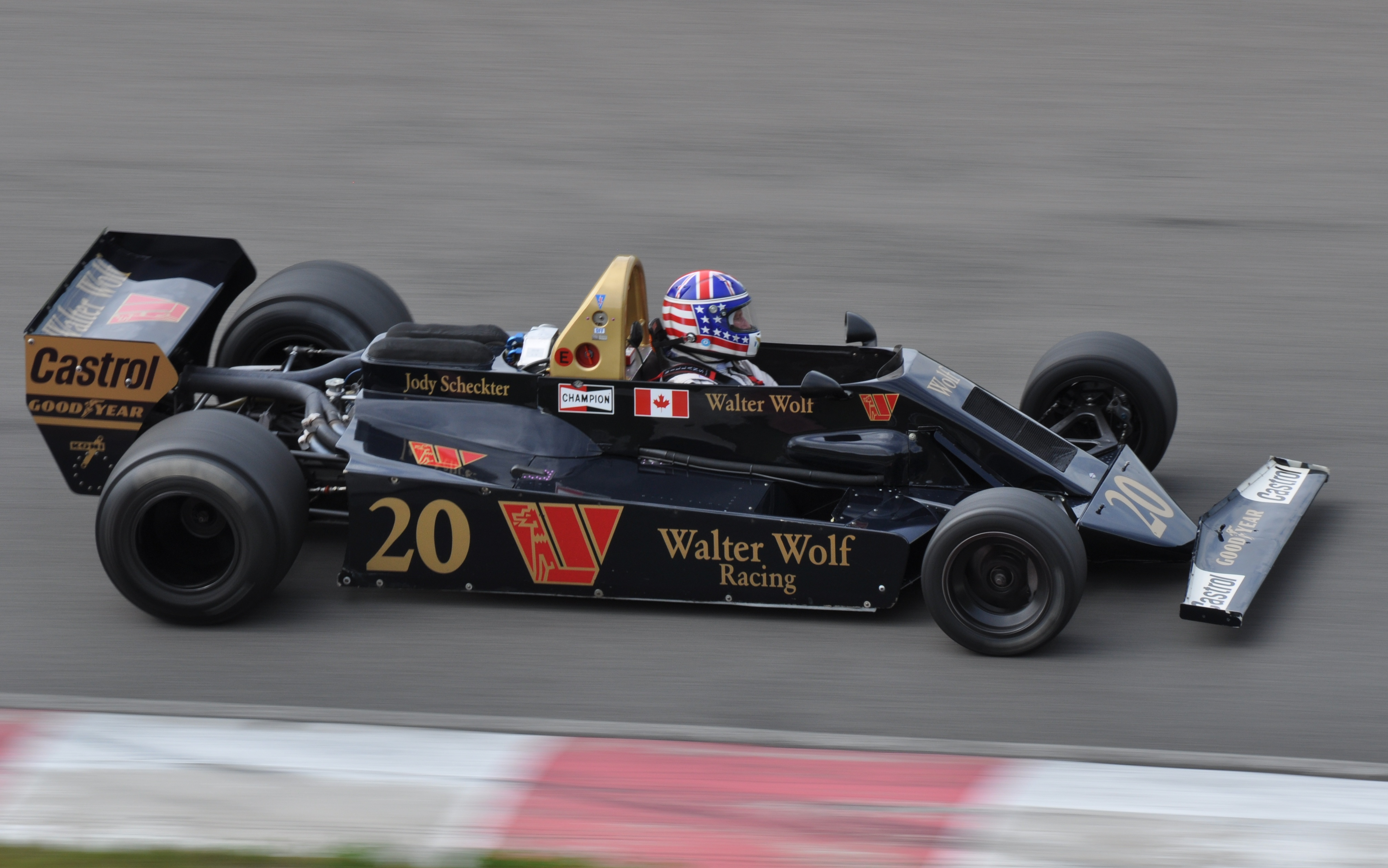 Doug Mockett powers through The Esses at Circuit Mont-Tremblant in his ex-Jody Scheckter Wolf WR6 Formula One racing car, during the 2010 Legends of Motorsport meeting.